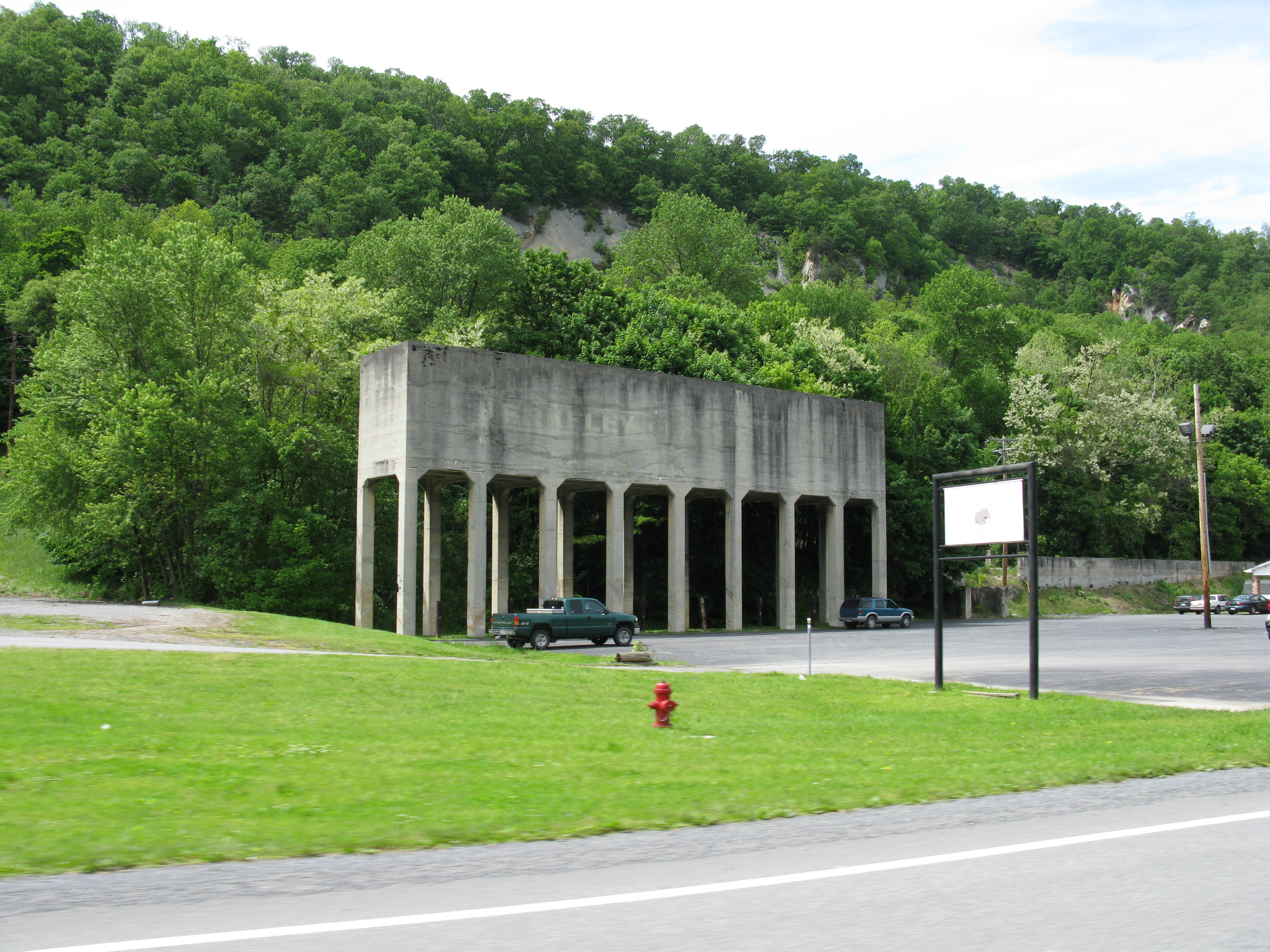 Sand storage bin at U.S. Route 522, Bath (Berkeley Springs), West Virginia